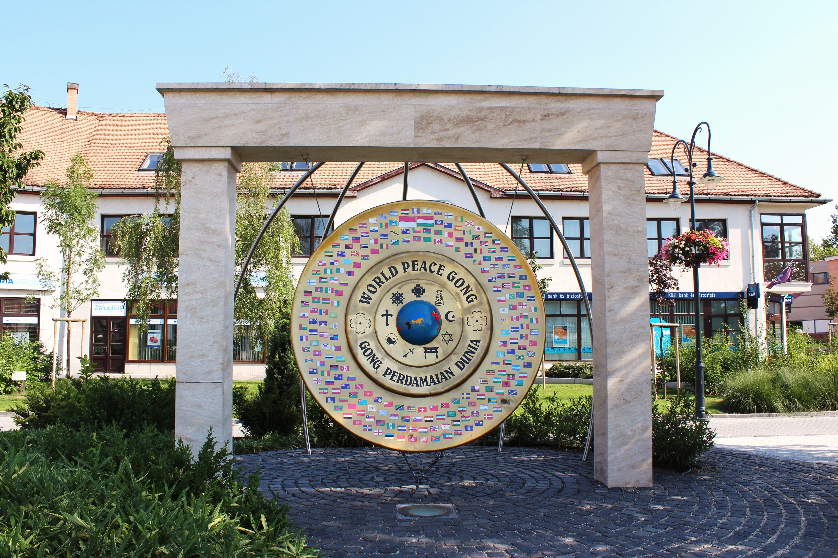 World Peace Gong, Gödöllő